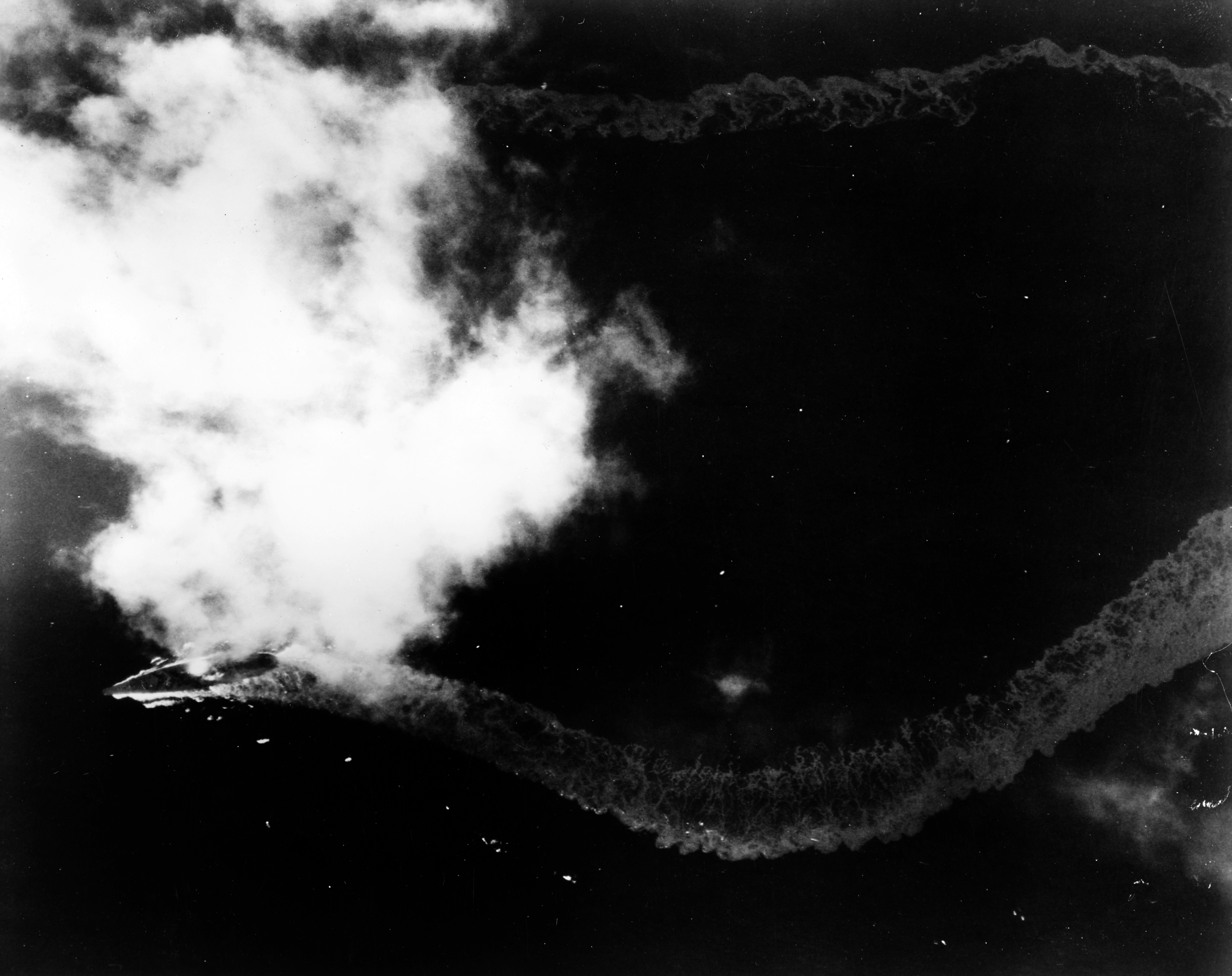 Operation "Ten-Go": The Japanese battleship Yamato maneuvers while under attack by U.S. Navy carrier planes north of Okinawa, 7 April 1945. The photo was taken by a plane from the aircraft carrier USS Yorktown (CV-10). The original photo caption reads: "The 72,000-ton Japanese battleship Yamato, pride of the Imperial Fleet, maneuvers evasively at a brisk 15 to 20 knots prior to attack. One fire can be observed amidships from previous attacks, but at this point no list has developed." (Collection of Fleet Admiral Chester W. Nimitz, USN).